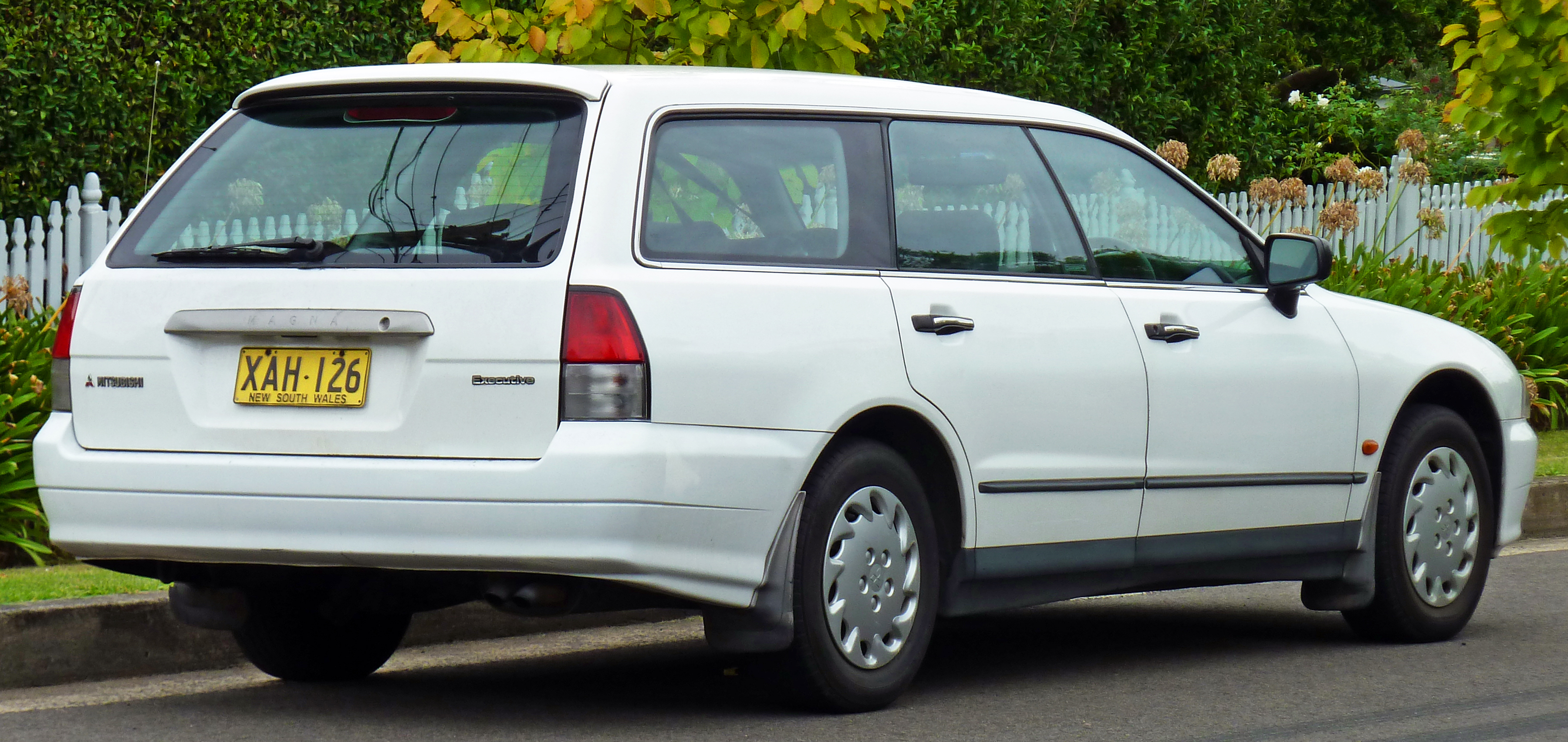 1997 Mitsubishi Magna (TF) Executive station wagon. Photographed in Roseville, New South Wales, Australia.